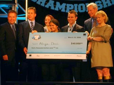 Amador Valley student Aliya Deri is presented with a $40,000 check after winning the 2008 National Vocabulary Championship.